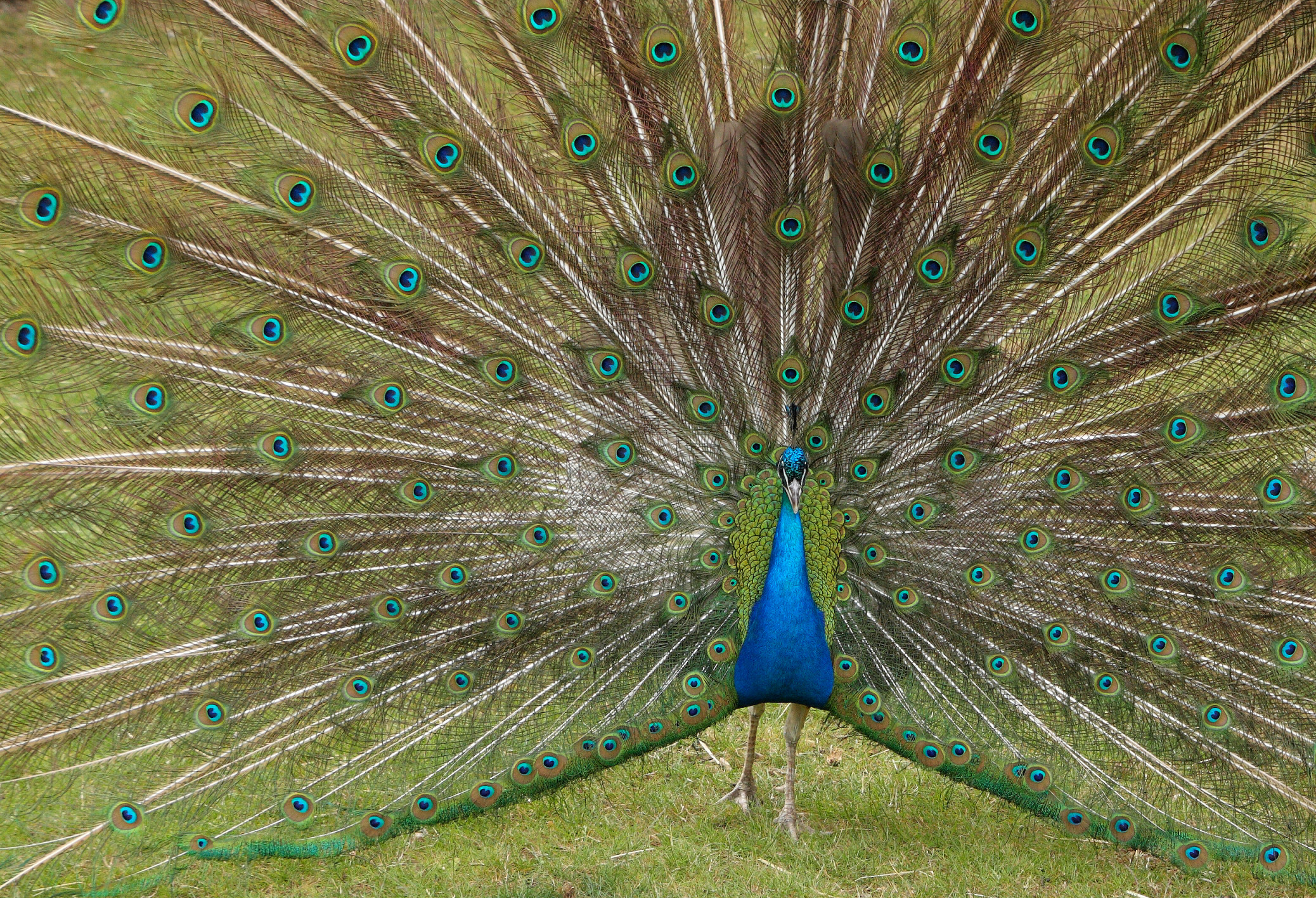 Peacock, East Park, Hull